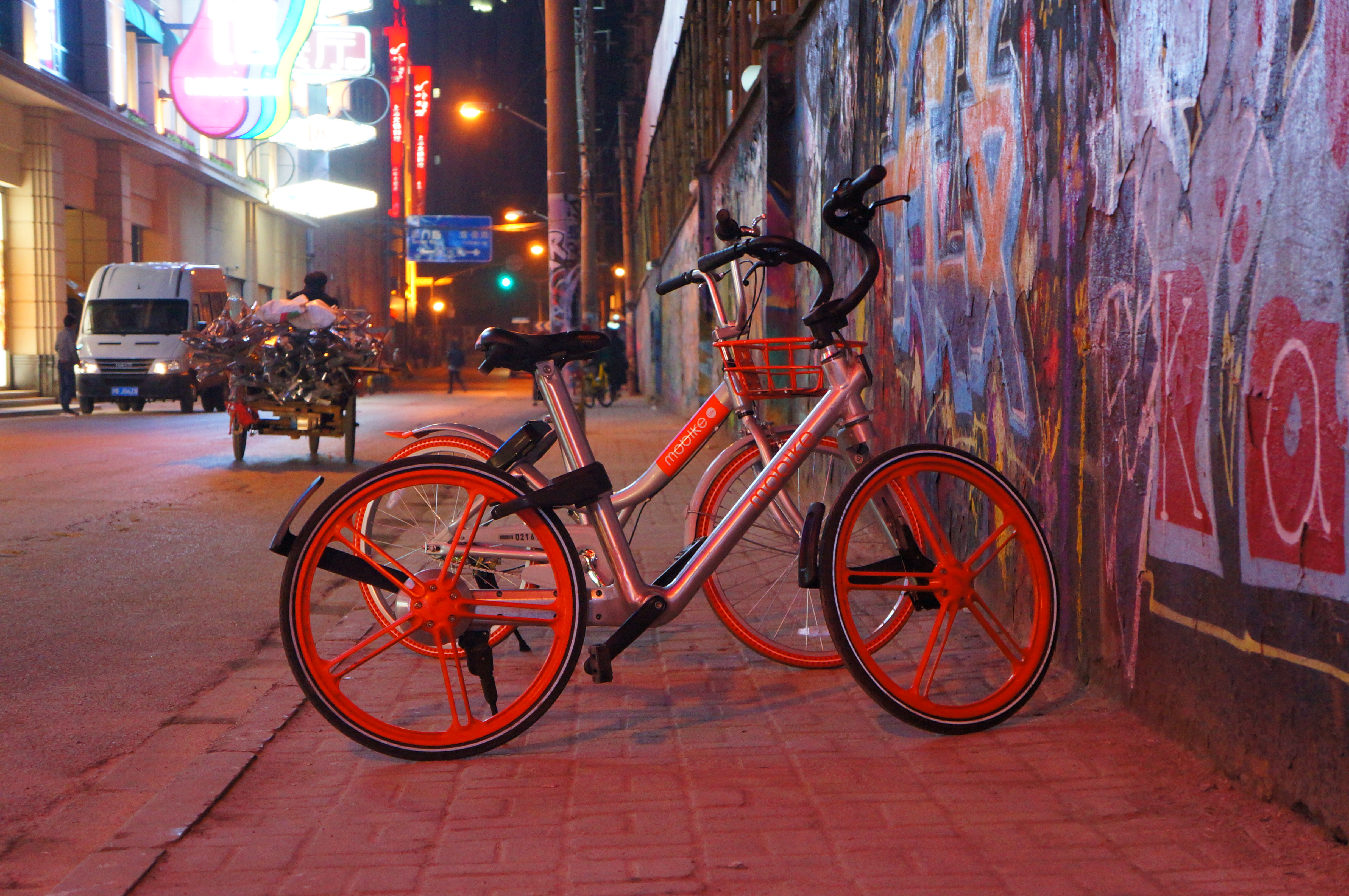 201703 Mobikes at M50, pretty cool huh?